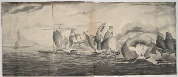 A unique first-hand depiction of a sea battle between the British and Chinese near Hong Kong, during the First Opium War, 1839.